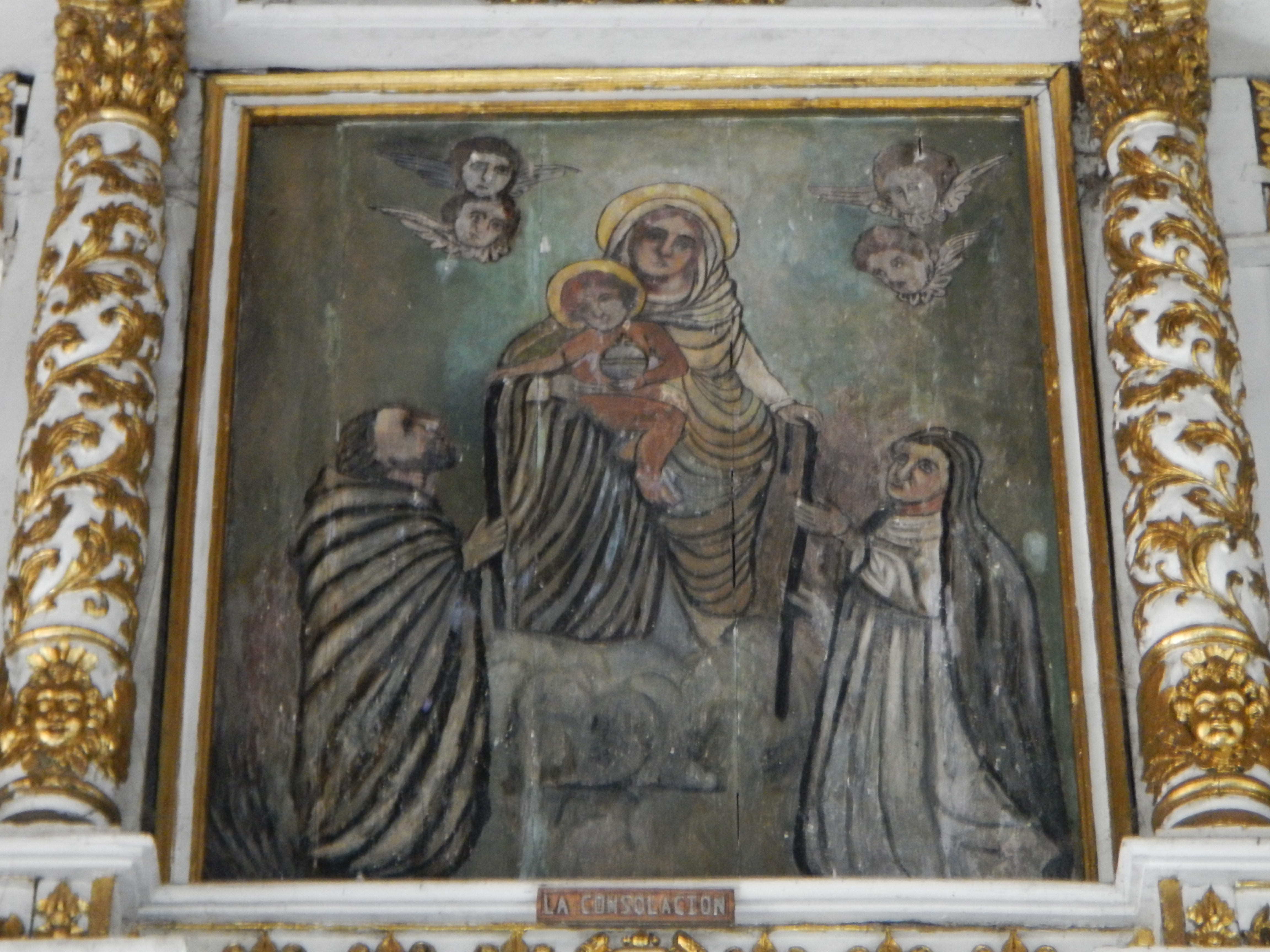 [1]The 1721 Santa Monica Parish Church, commonly known as the Minalin Church is a Baroque (heritage) Church, located in 2019 Minalin, Pampanga (San Nicolas). It is a Spanish-era church declared a National Cultural Treasure by the National Museum of the Philippines and the National Commission for Culture and the Arts (Philippines).